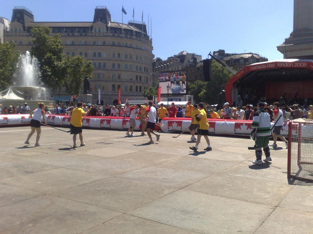 Street hockey tournament in Trafalgar Square in celebration of Canada Day. London, U.K.